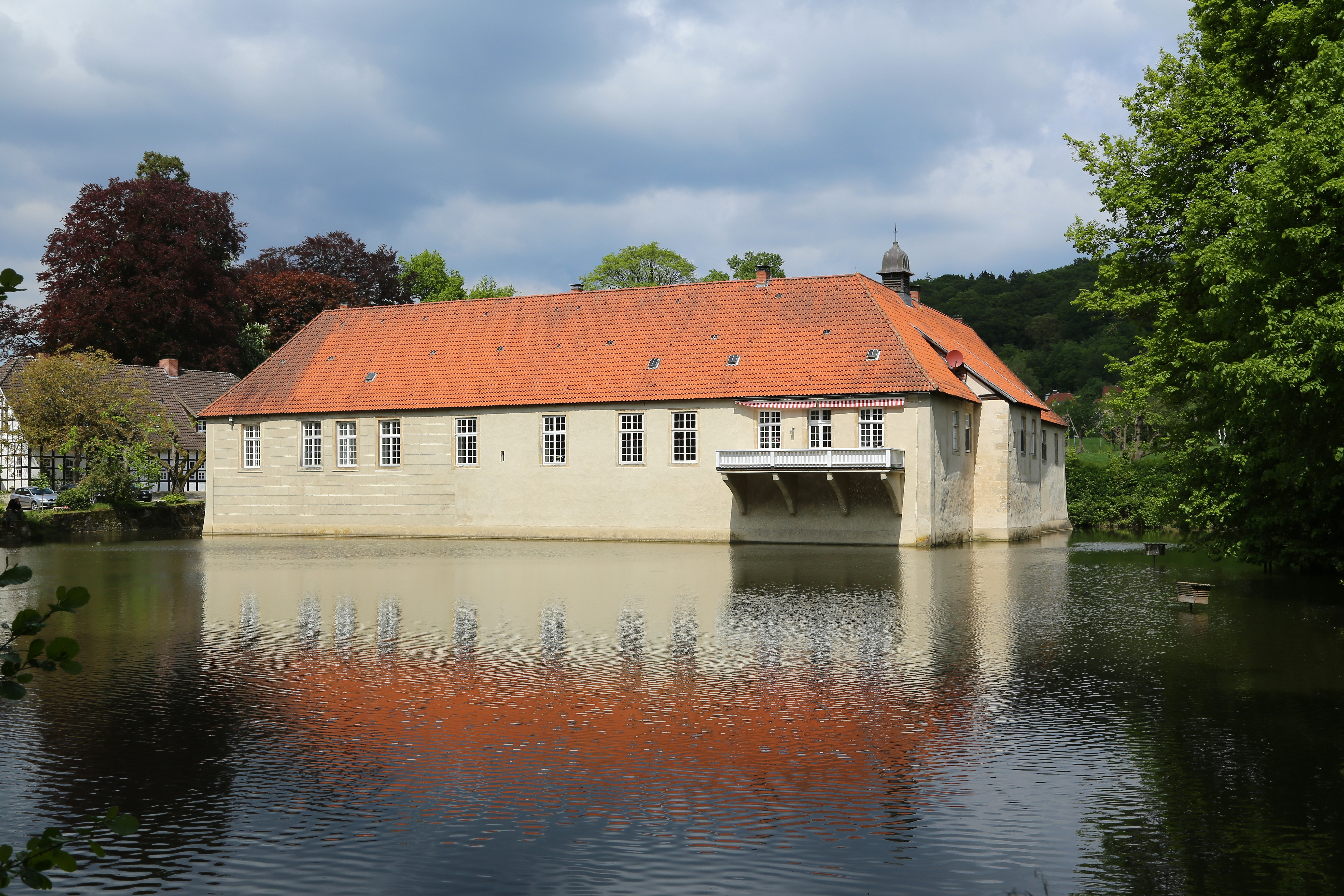 The Marck House water castle (Wasserschloss Haus Marck) near Tecklenburg, Kreis Steinfurt, North Rhine-Westphalia, Germany.